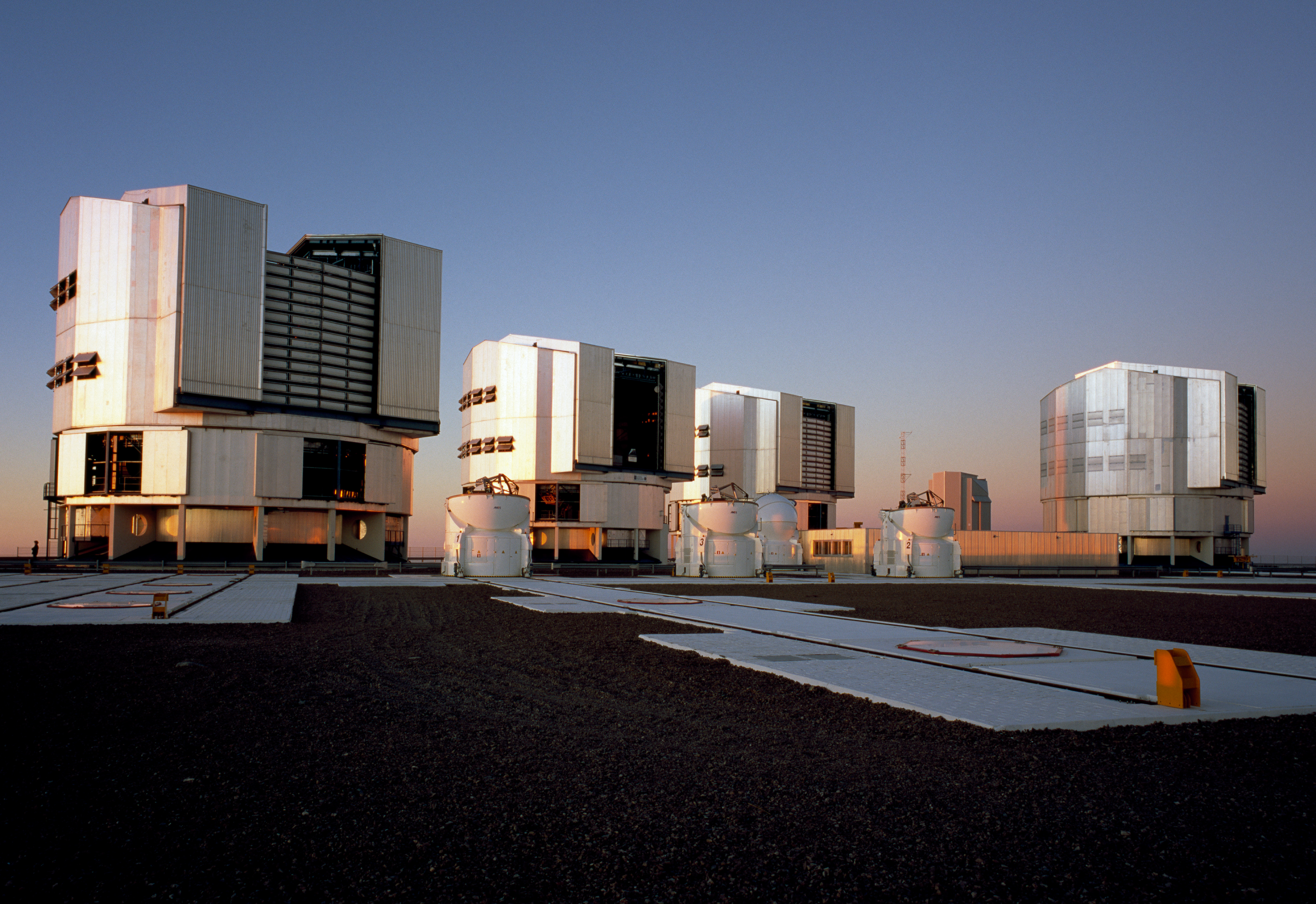 The Paranal platform photographed in January 2007. The four main Very Large Telescope (VLT) units can be seen, as well the four auxiliary telescopes.